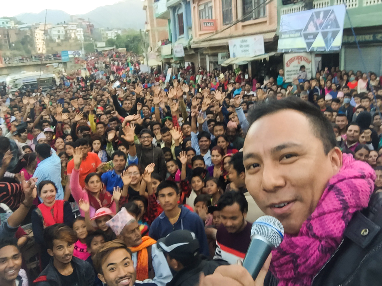 Santosh Lama (Template:Lang-ne): (born July 21, 1986 ) is a nepali singer.